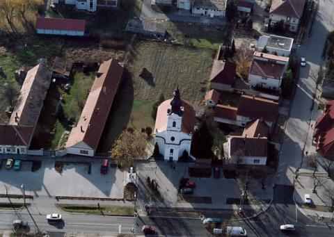 Soltvadkert, Hungary, aerialphotography